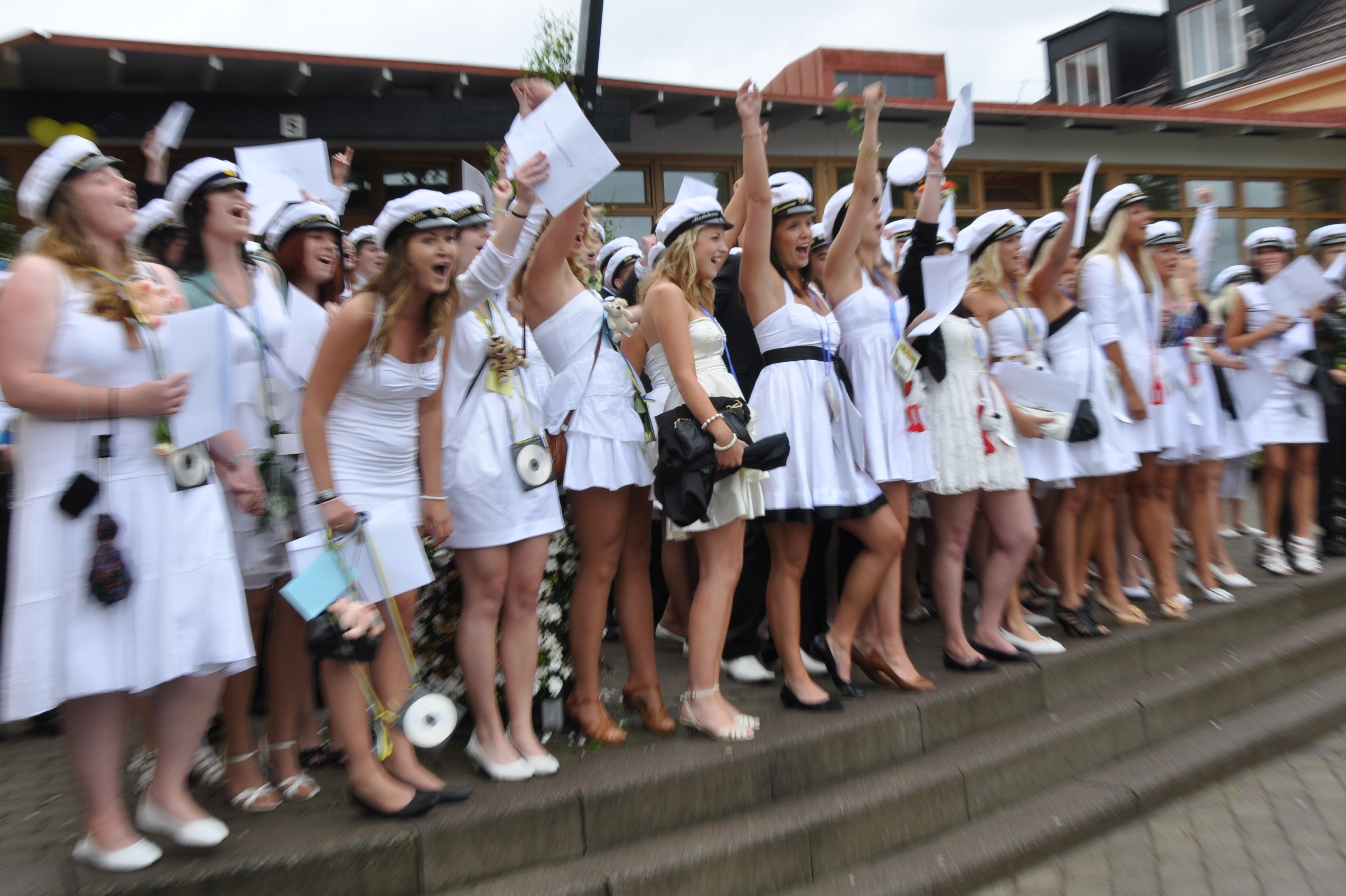 Students Strömkullegymnasiet